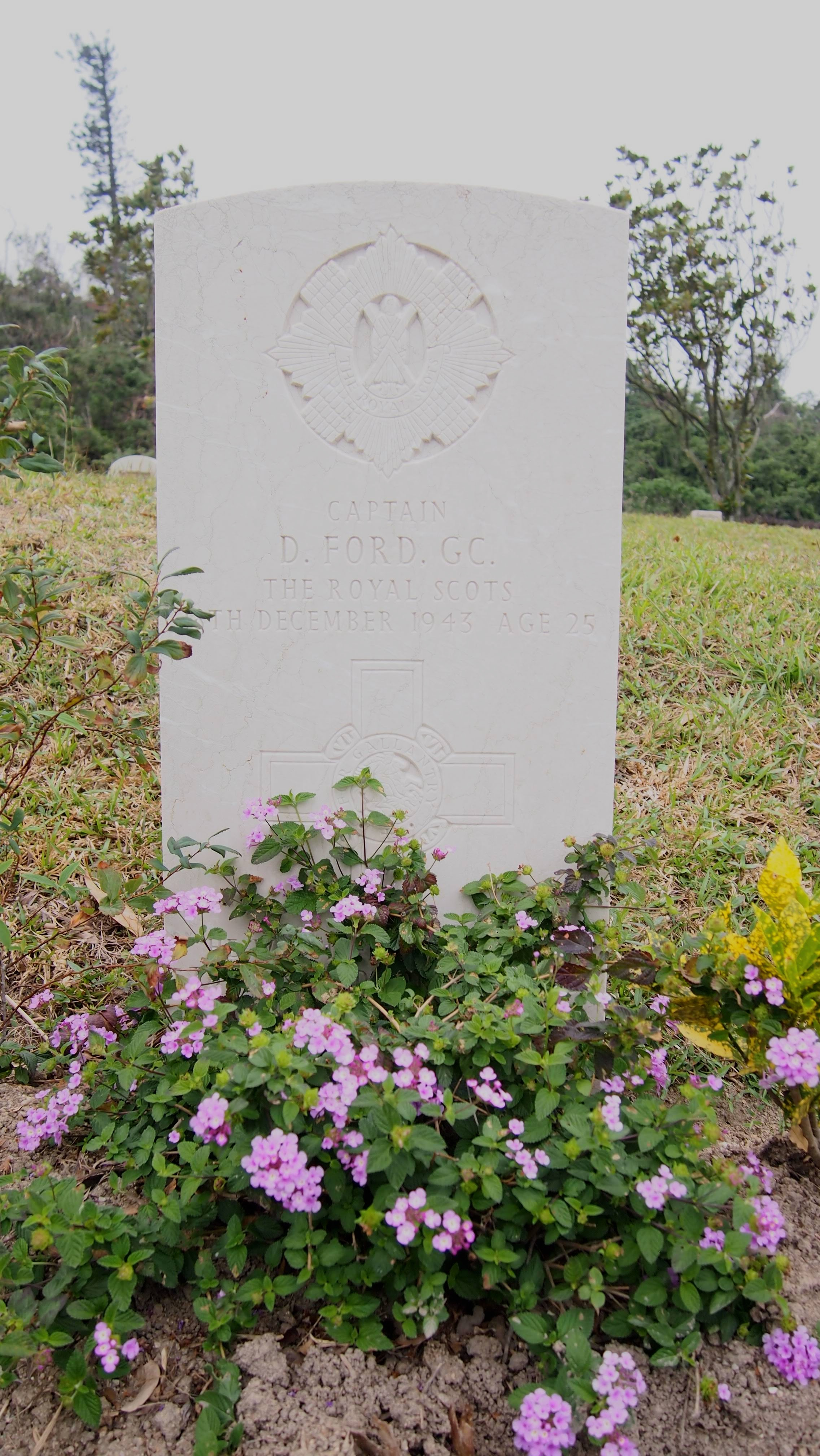 Grave of Captain Douglas Ford (1918-1943), who was executed during the Japanese occupation.